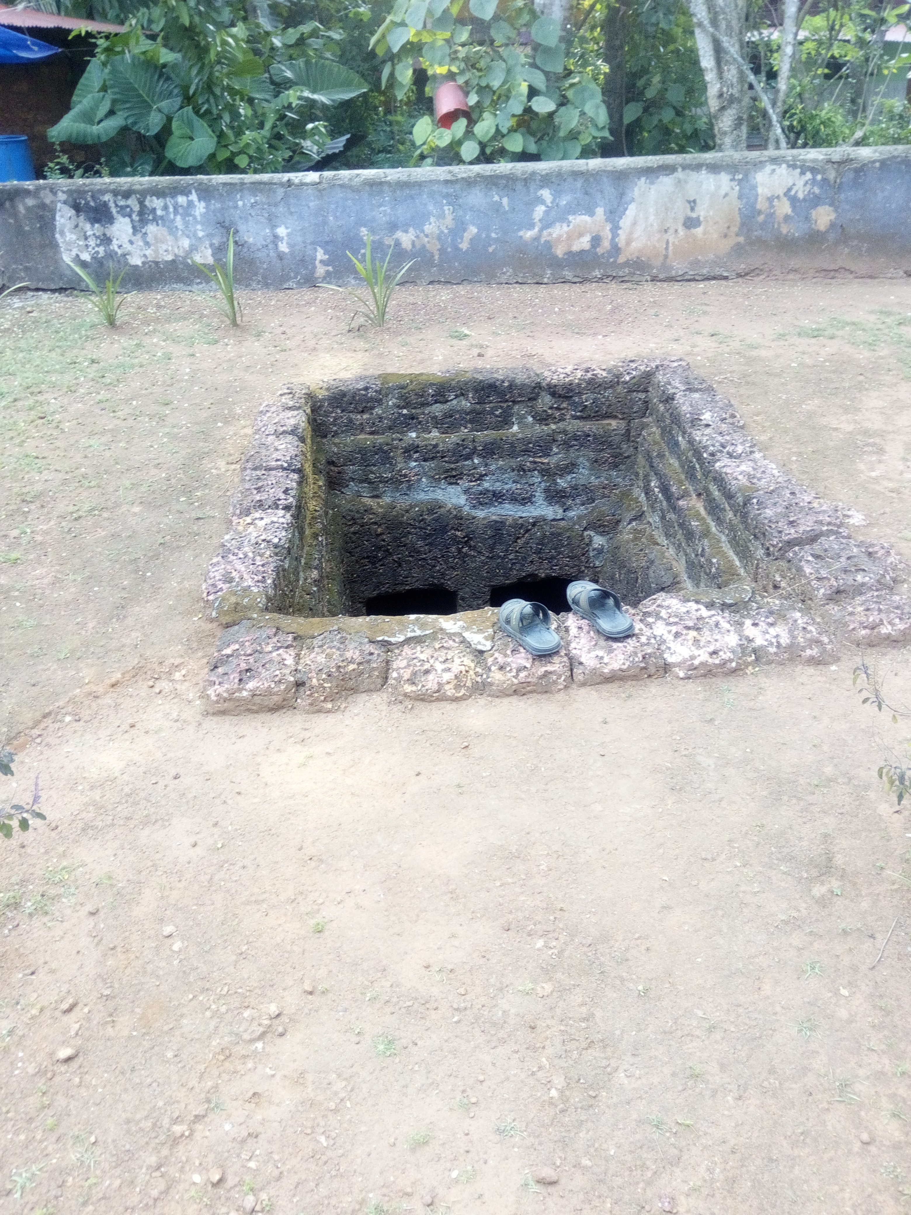 Burial Cave, (muniyara) Chirakkal, kattakampal, kunnamkulam